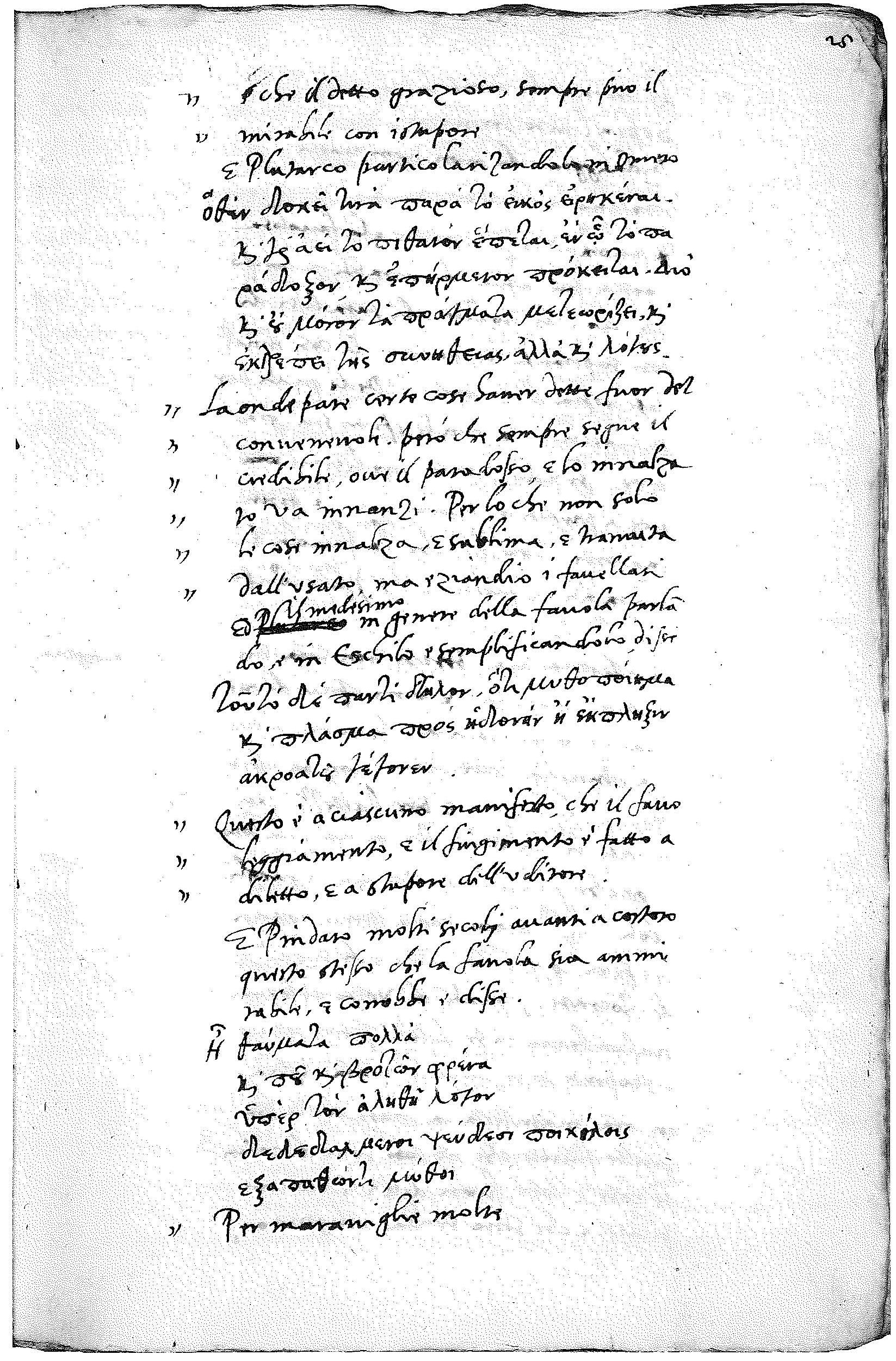 A page of Patrizi’s autograph manuscript of his Poetica. Manuscript: Parma, Biblioteca Palatina, Pal. 408, fol. 25r.